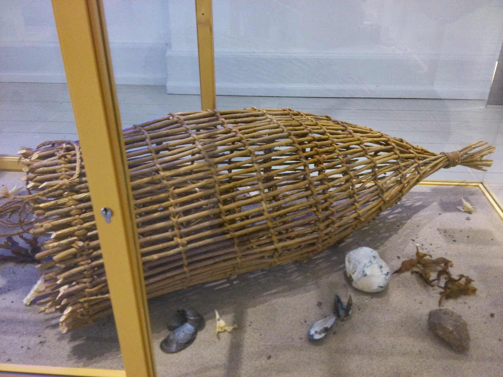 Fyke from the danish Kongemose Culture around 5.500 BC